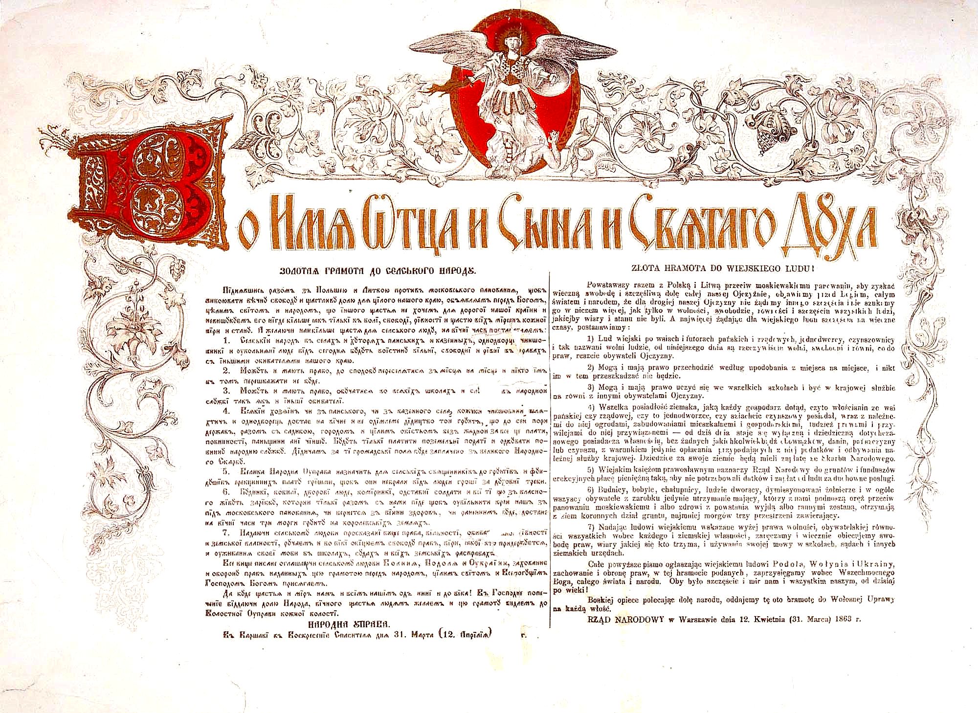 Złota Hramota